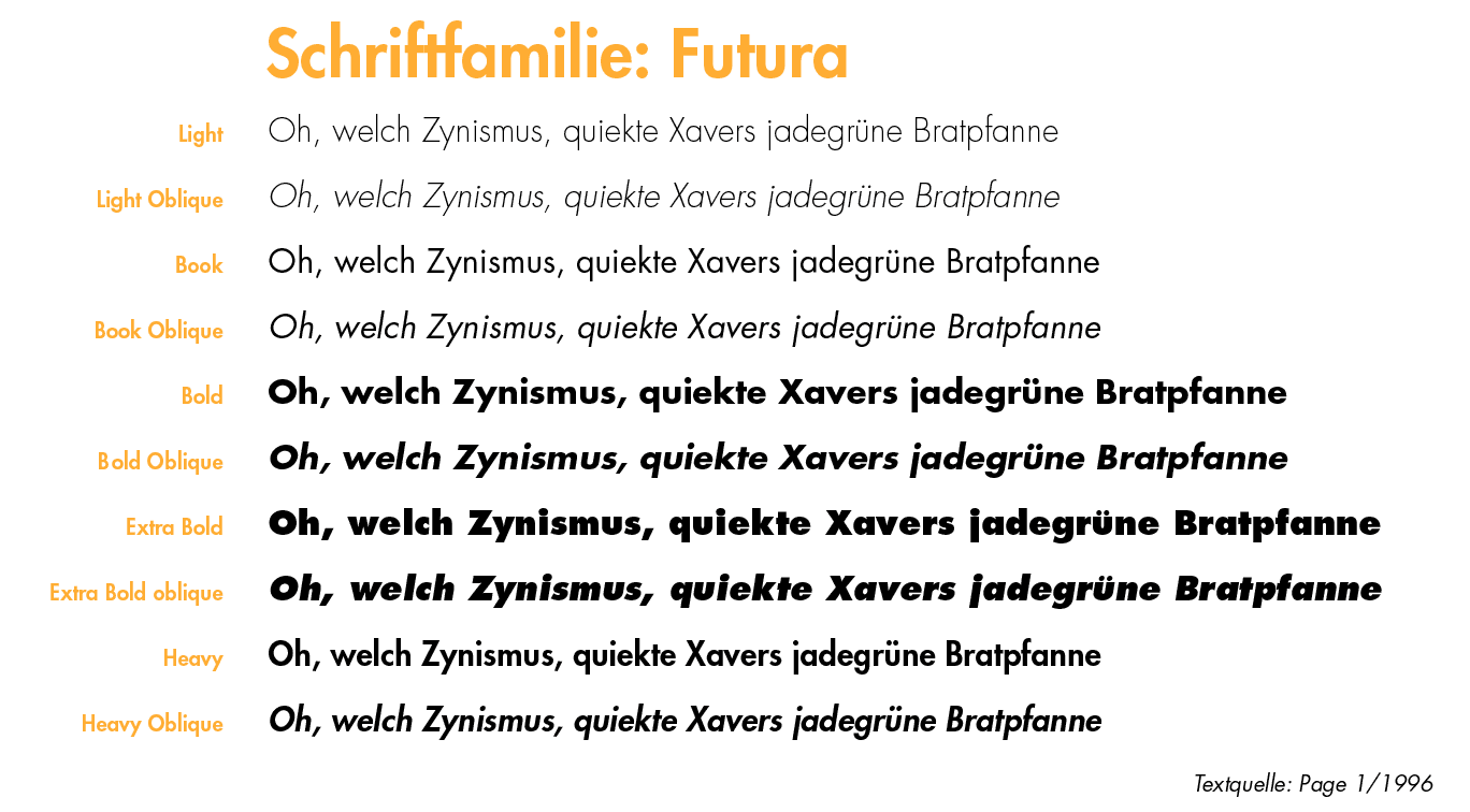 Examples of the typeface Futura using the German pangram "Oh, welch Zynismus, quiekte Xavers jadegrüne Bratpfanne."